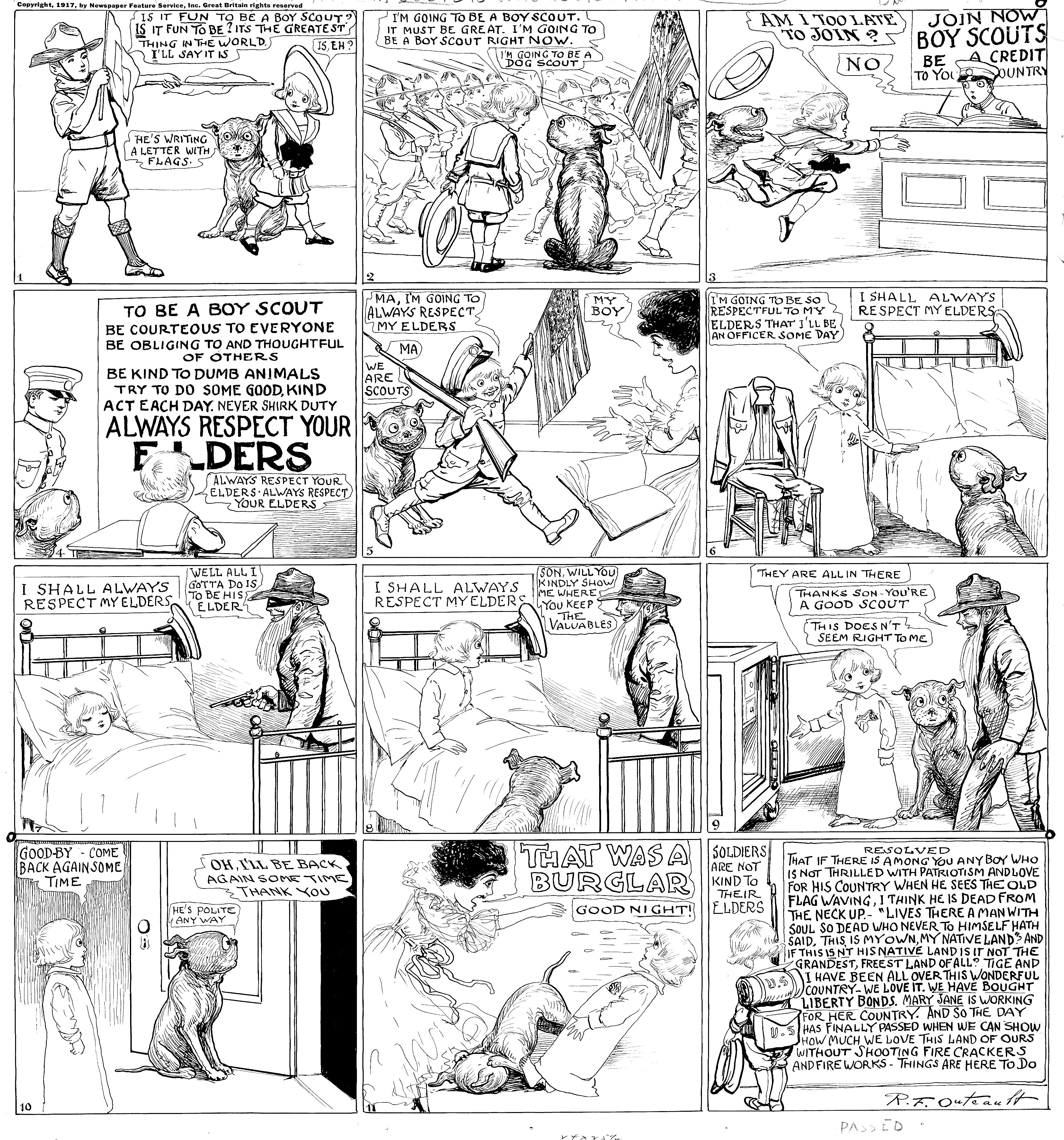 [Buster Brown]. Is it fun to be a Boy Scout? Is it fun to be? It's the greatest thing in the world. I'll say it is